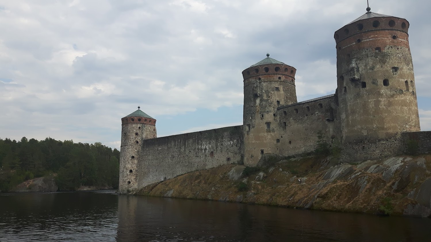 Savonlinna fort on Lake Saimaa, Finland.